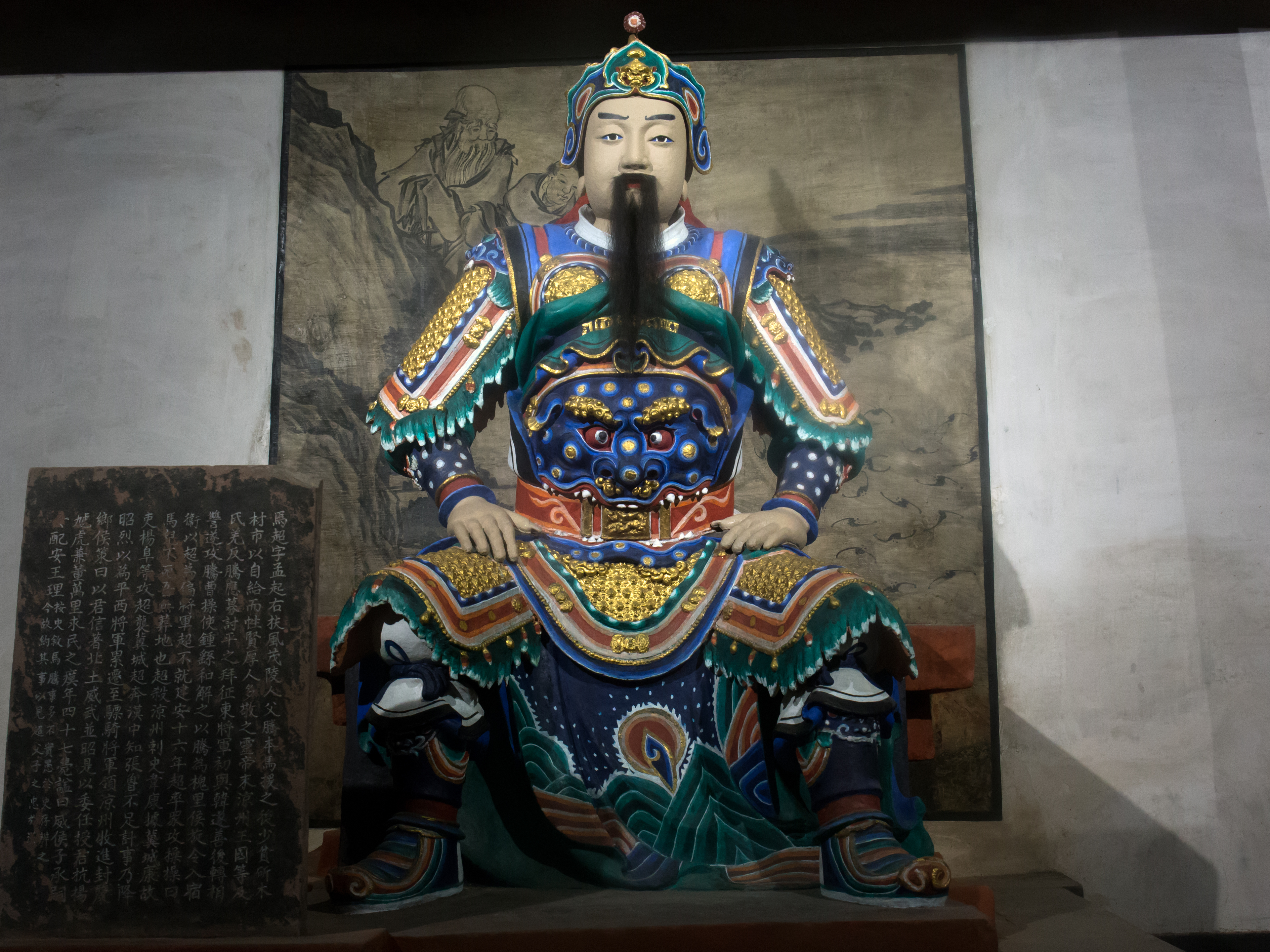 Ma Chao (馬超)